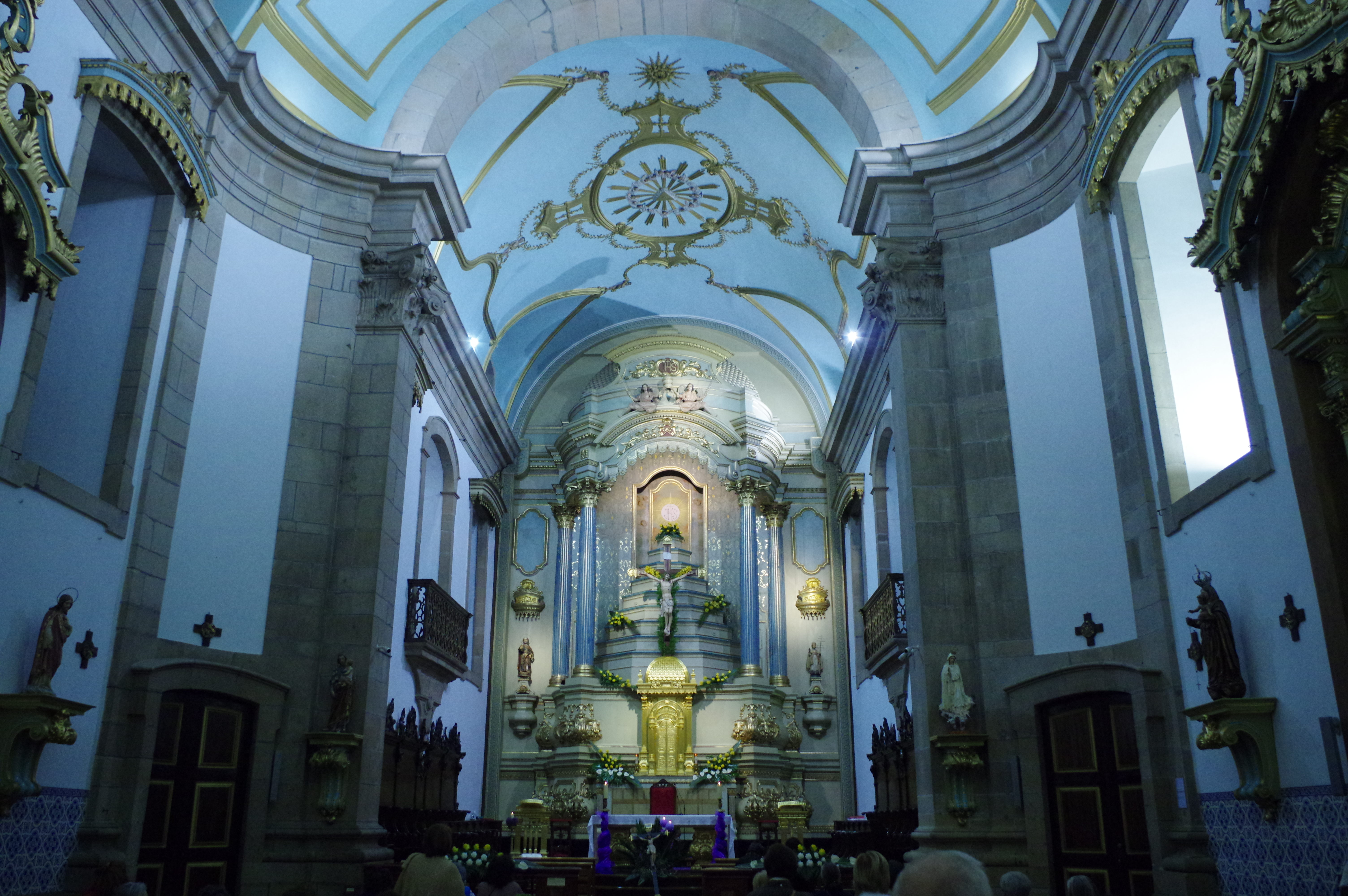 17.4.14 3 Guimaraes Easter Thursday Parade 458